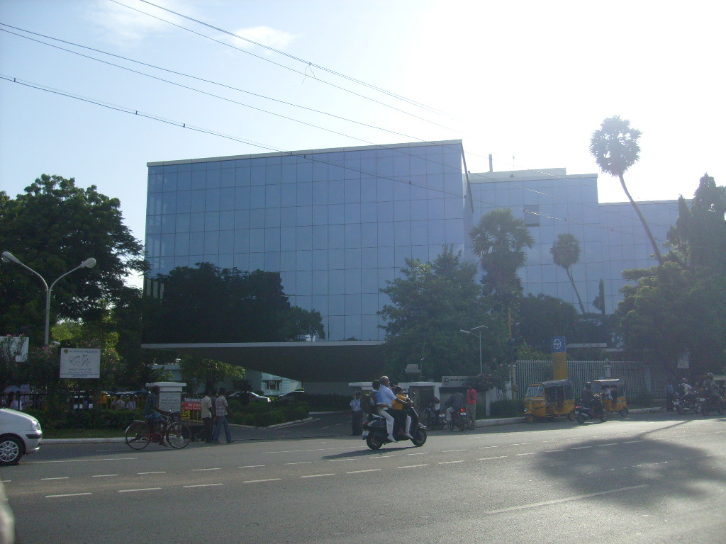 Larsen and Toubro Infotech, Ramapuram